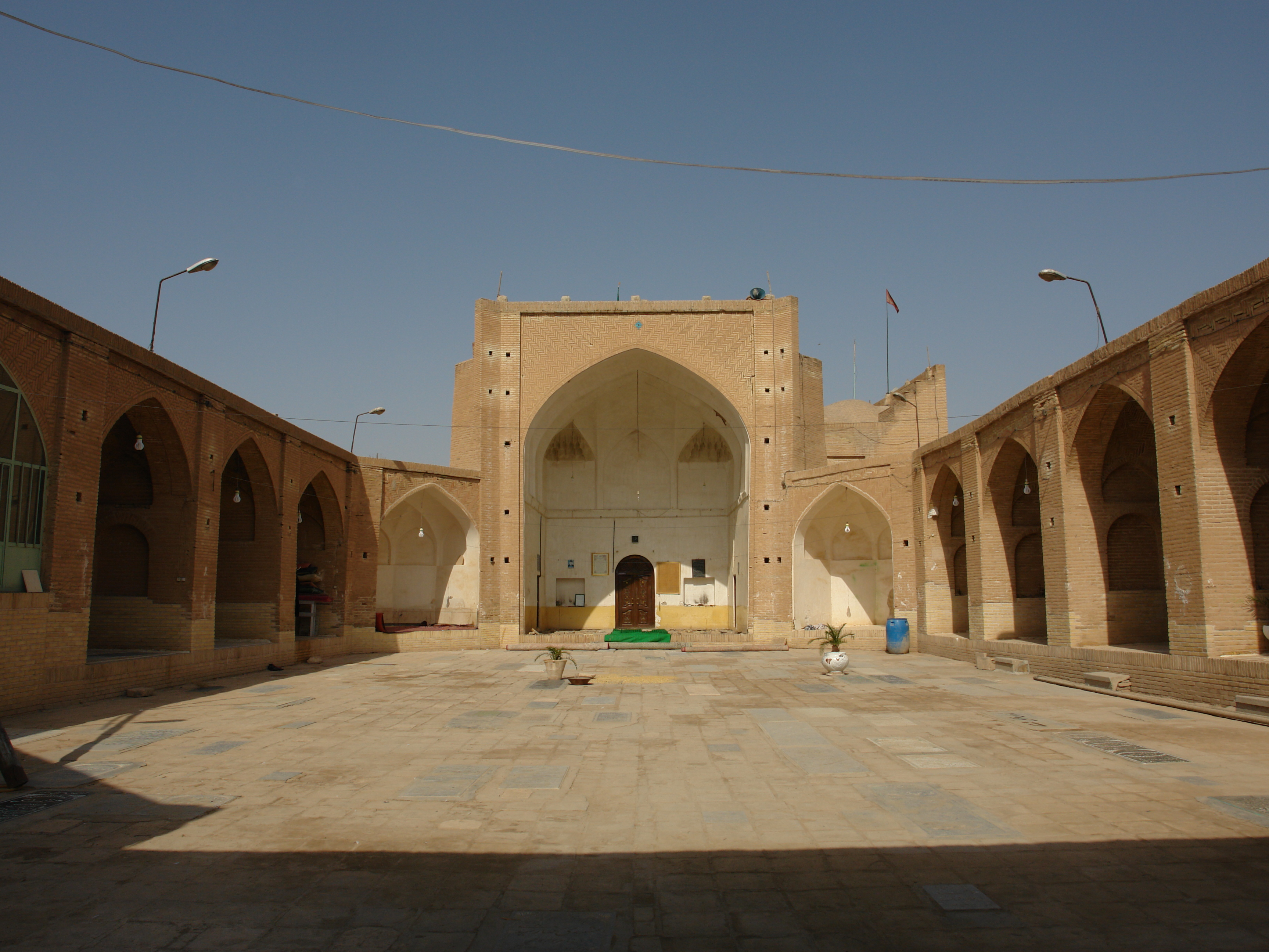 hayat-sharghi-emamzadeh seysd eshagh (saveh)